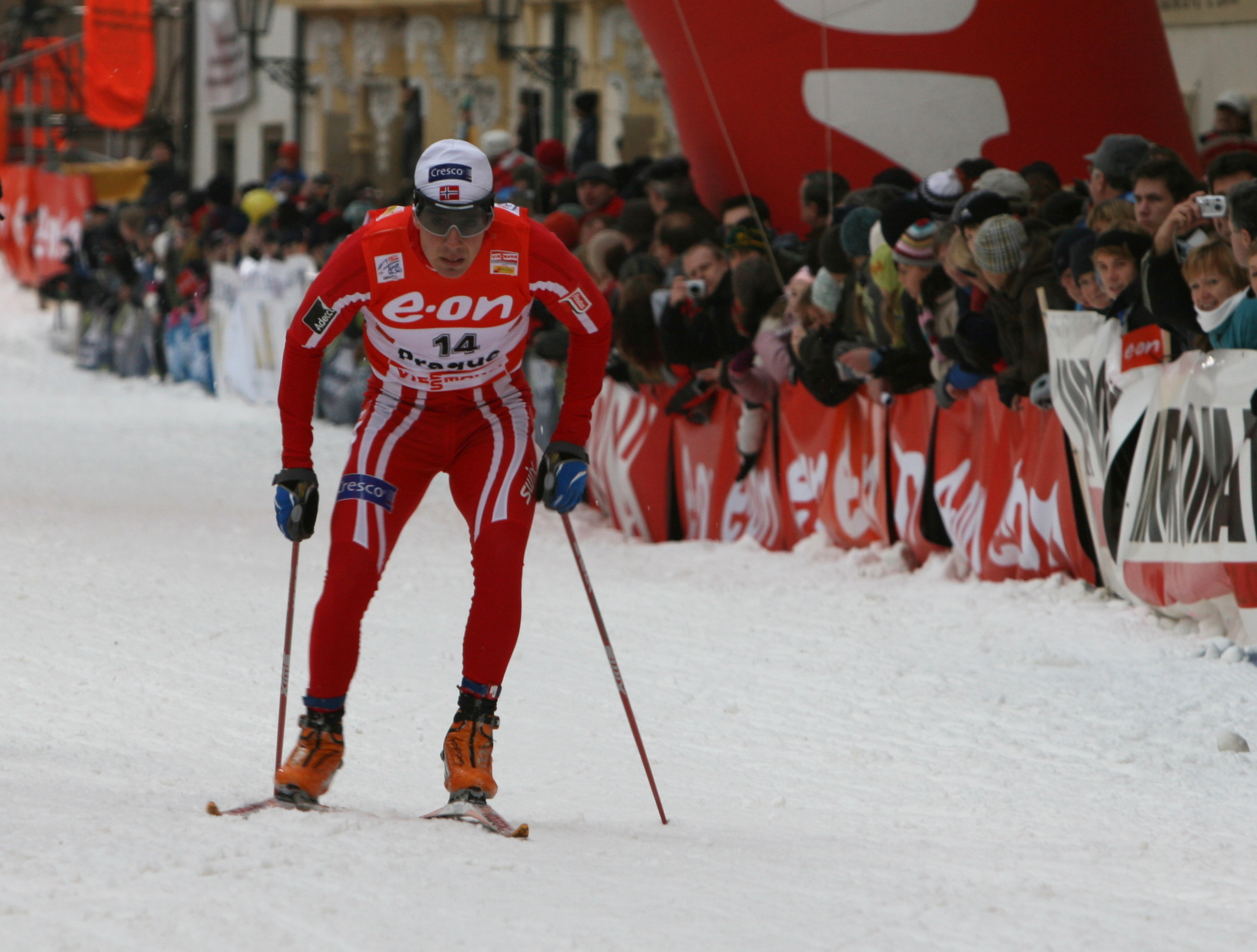 Eldar Rønning in the quaterfinals of Tour de Ski in Prague